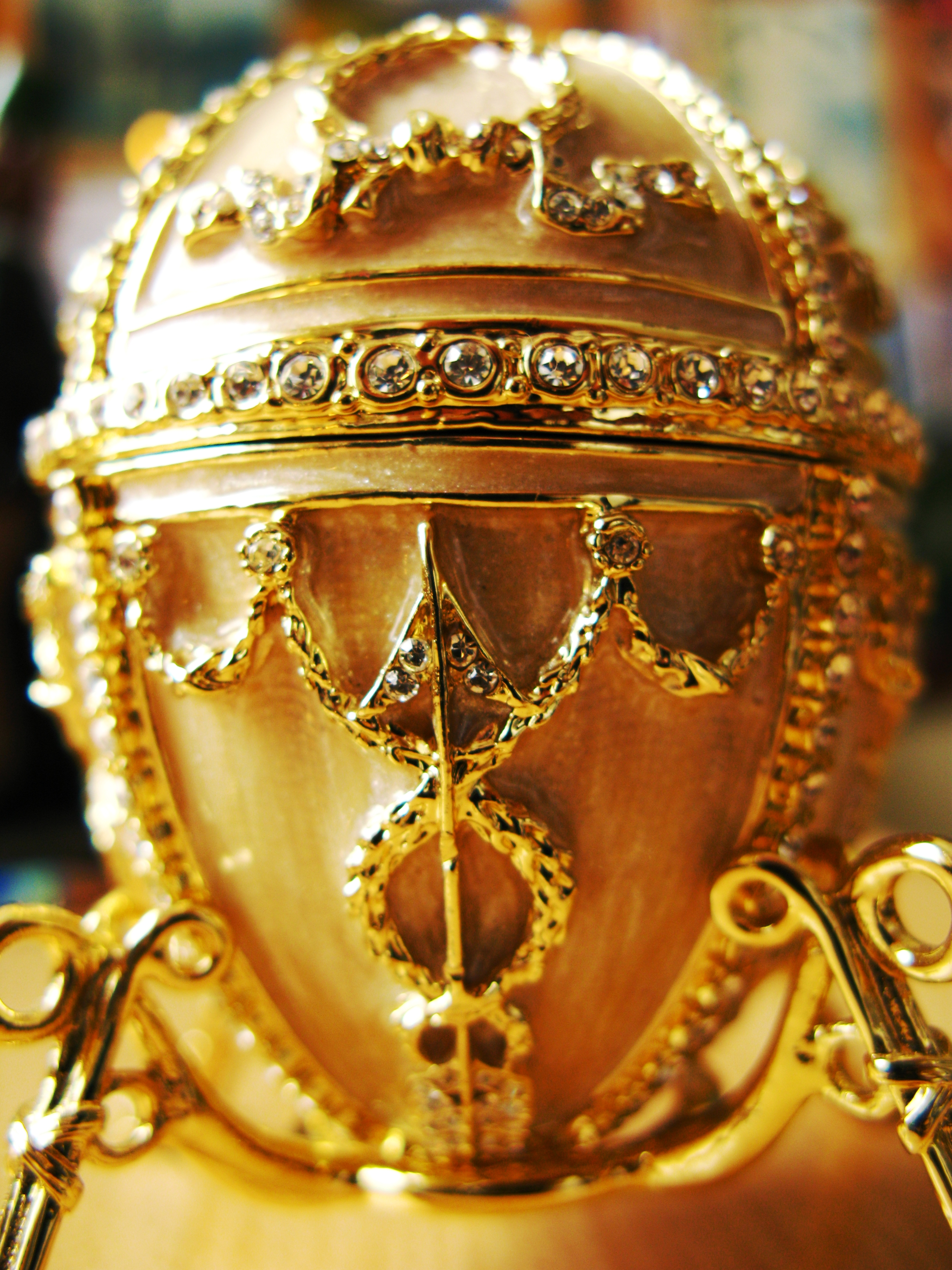 Replica of Faberge egg.